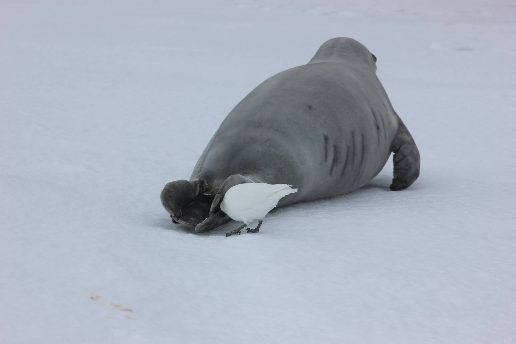 Snowy Sheathbill eating seal's excrements